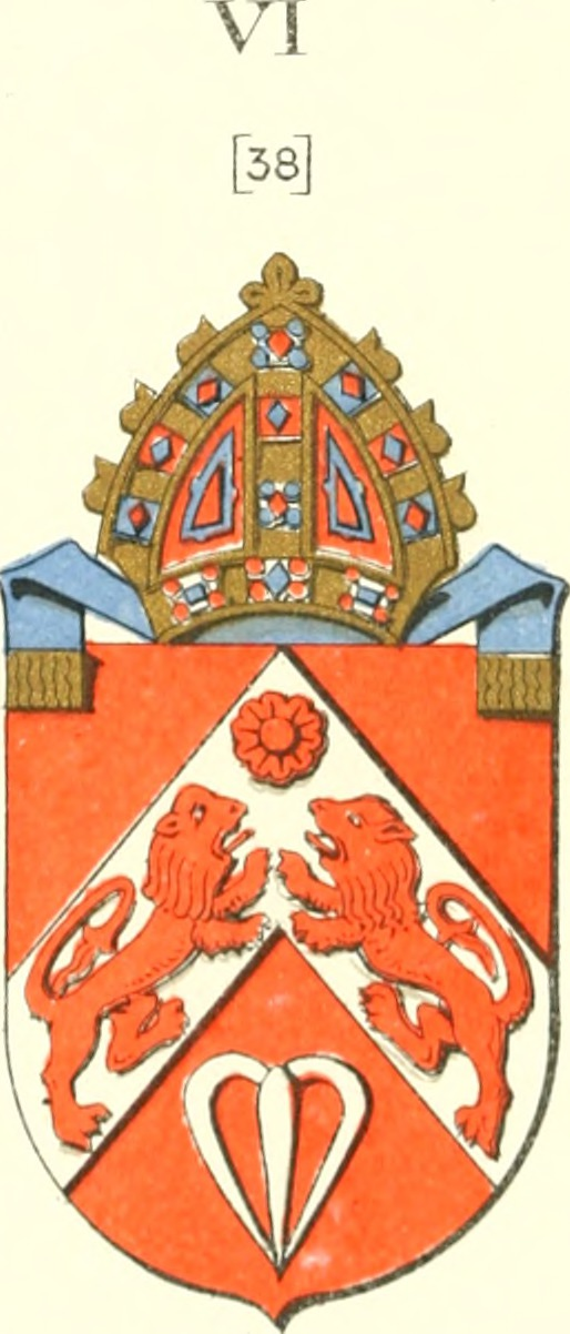 Coat of arms of James Hepburn, Bishop of Moray. Identifier: lacunarbasilicae00geddrich Title: Lacunar basilicae Sancti Macarii, aberdonensis: the heraldic ceiling of the cathedral church of St. Machar, old Aberdeen Year: 1888 (1880s) Authors: Geddes, W. D., Sir (William Duguid), 1828-1900 Duguid, Peter Subjects: Old Machar Church (Aberdeen, Scotland) Heraldry -- Scotland Heraldry, Ornamental Publisher: Aberdeen : Printed for the New Spalding Club